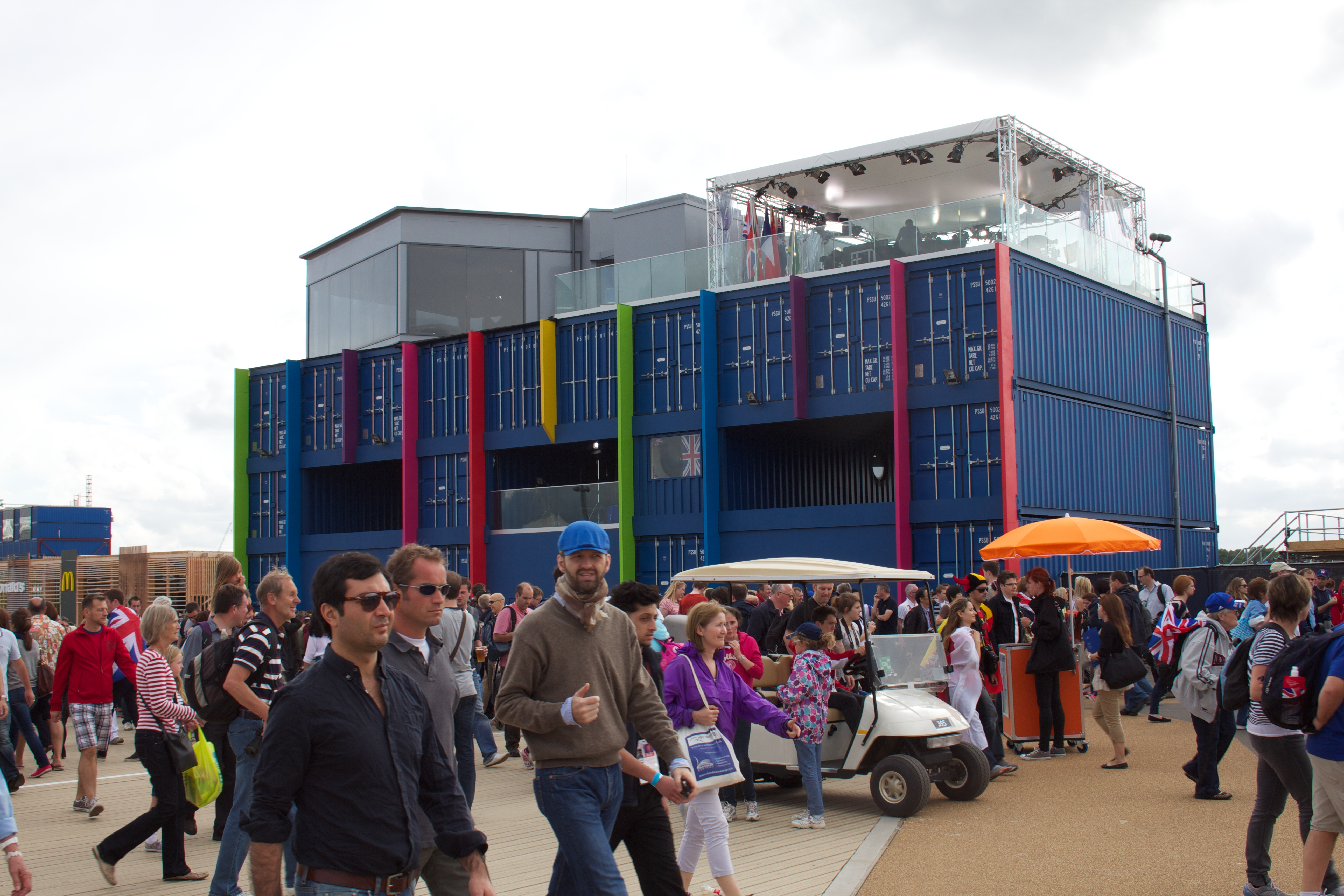 One of the BBC studios in the Olympic Park. Made of shipping containers.